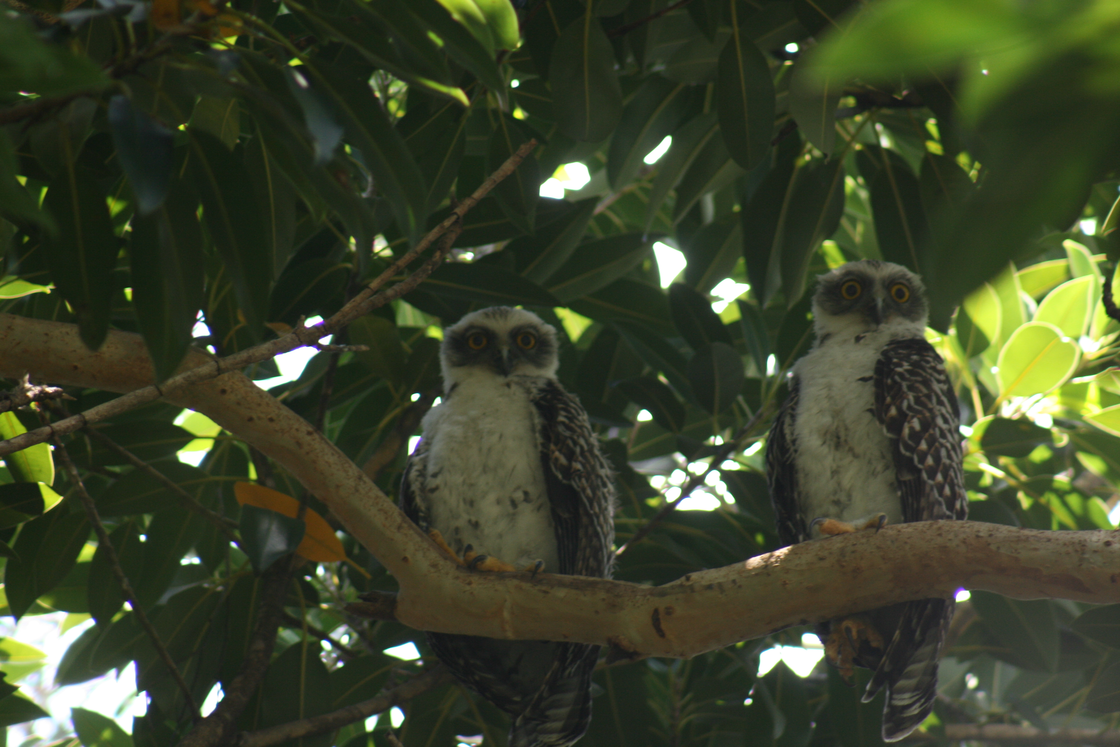 powerful owl nestlings, Sylvan Grove Native Garden, Picnic Point, NSW